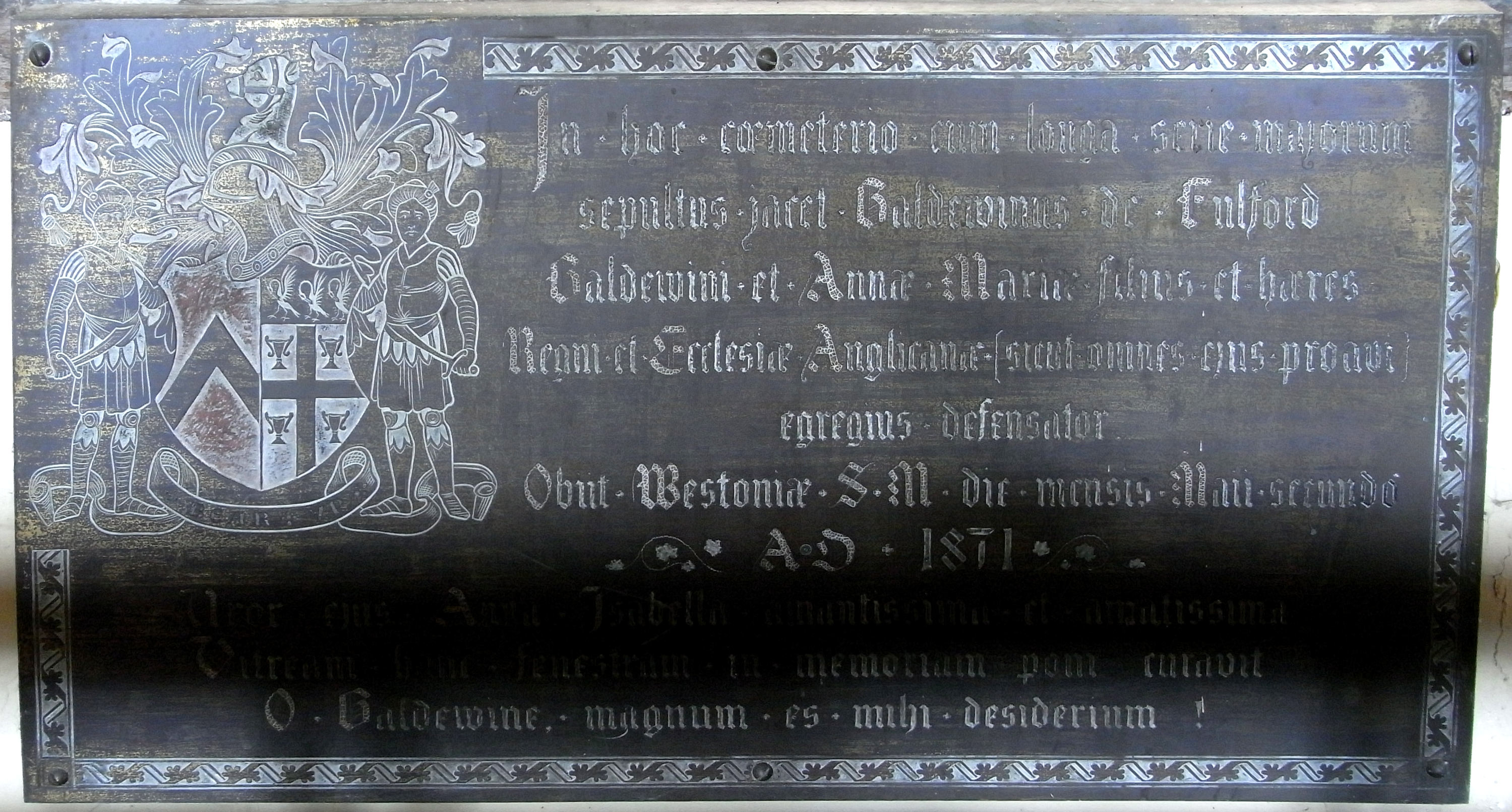 Monumental brass of Col. Baldwin III Fulford (1801-1871) of Great Fulford, Dunsford, Devon. Fulford Chapel of Dunsford Church. Inscribed: "In hoc caemeterio cum longa serie majorum sepultus jacet Baldewinus de Fulford Baldewini et Annae Mariae filius et haeres, Regni et Ecclesiae Anglicanae (sicut omnes eius proavi) egregius defensator. Obiit Westoniae SM die mensis Maii secundo AD 1871. Uxor eius Anna Isabella amantissima et amatissima vitream hanc fenestram in memoriam poni curavit. O Baldewine magnam es mihi desiderium!". (In this cemetery with a long line of his ancestors lies buried Baldwin de Fulford, son and heir of Baldwin and of Anna Maria. An outstanding defender (just as (were) all his predecessors) of the Anglican Kingdom and Church. He died at Weston, S(o)m(erset), on the second day of the month of May AD 1871. His wife Anna Isabella, most beloved and most loving, caused this glazed window to be erected in (his) memory. O Baldwin, a great loss you are to me!). At left is an heraldic achievement showing the arms of Fulford (Gules, a chevron argent) impaling Giles (Azure, a cross between four cups uncovered or on a chief argent three pelicans vulning themselves proper) (Berry, William, Encyclopaedia Heraldica, Vol.4[1]) with supporters two Saracens and crest of Fulford: A bear's head and neck erased